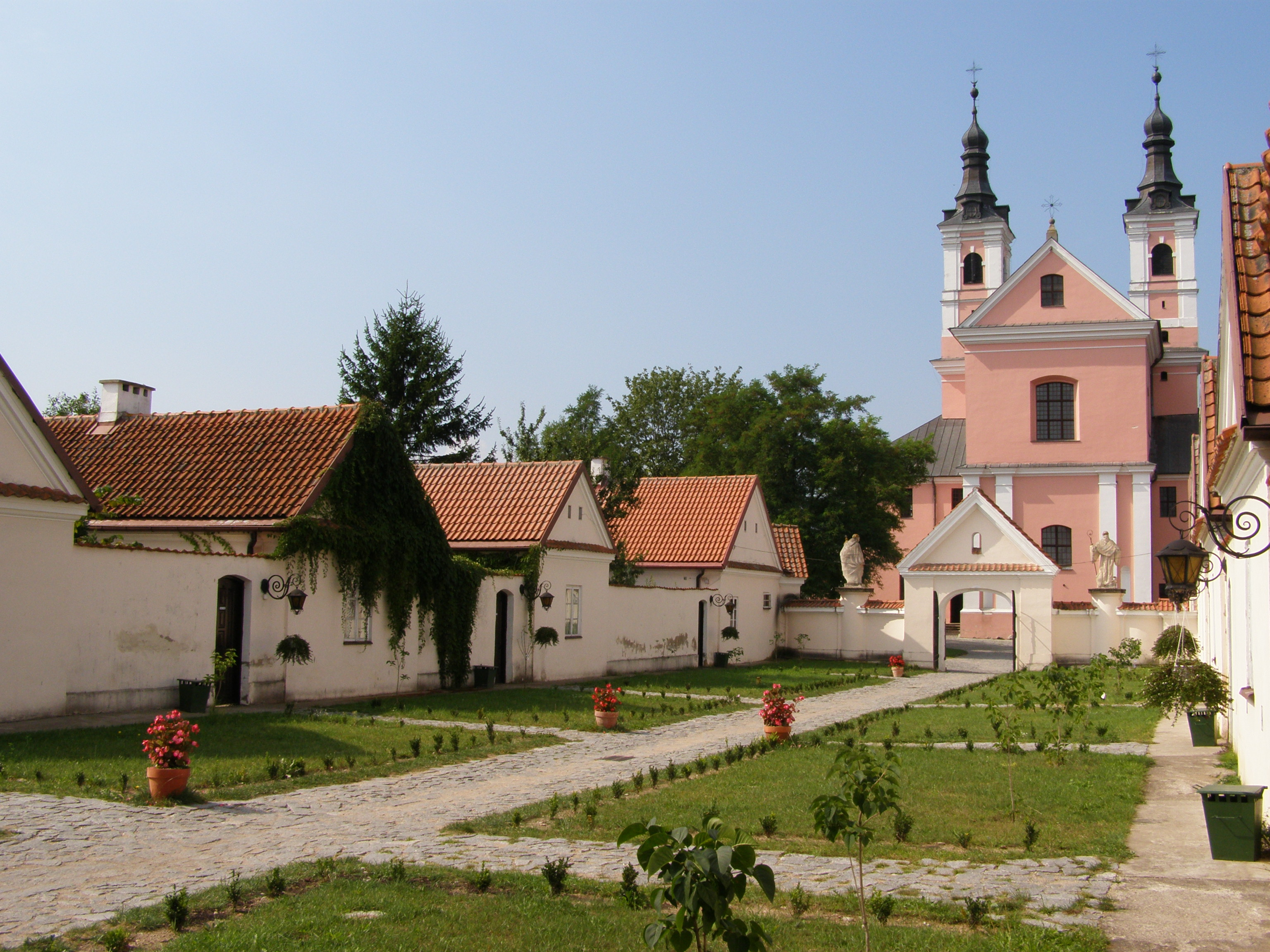 Former hermitages camaldolese in Wigry